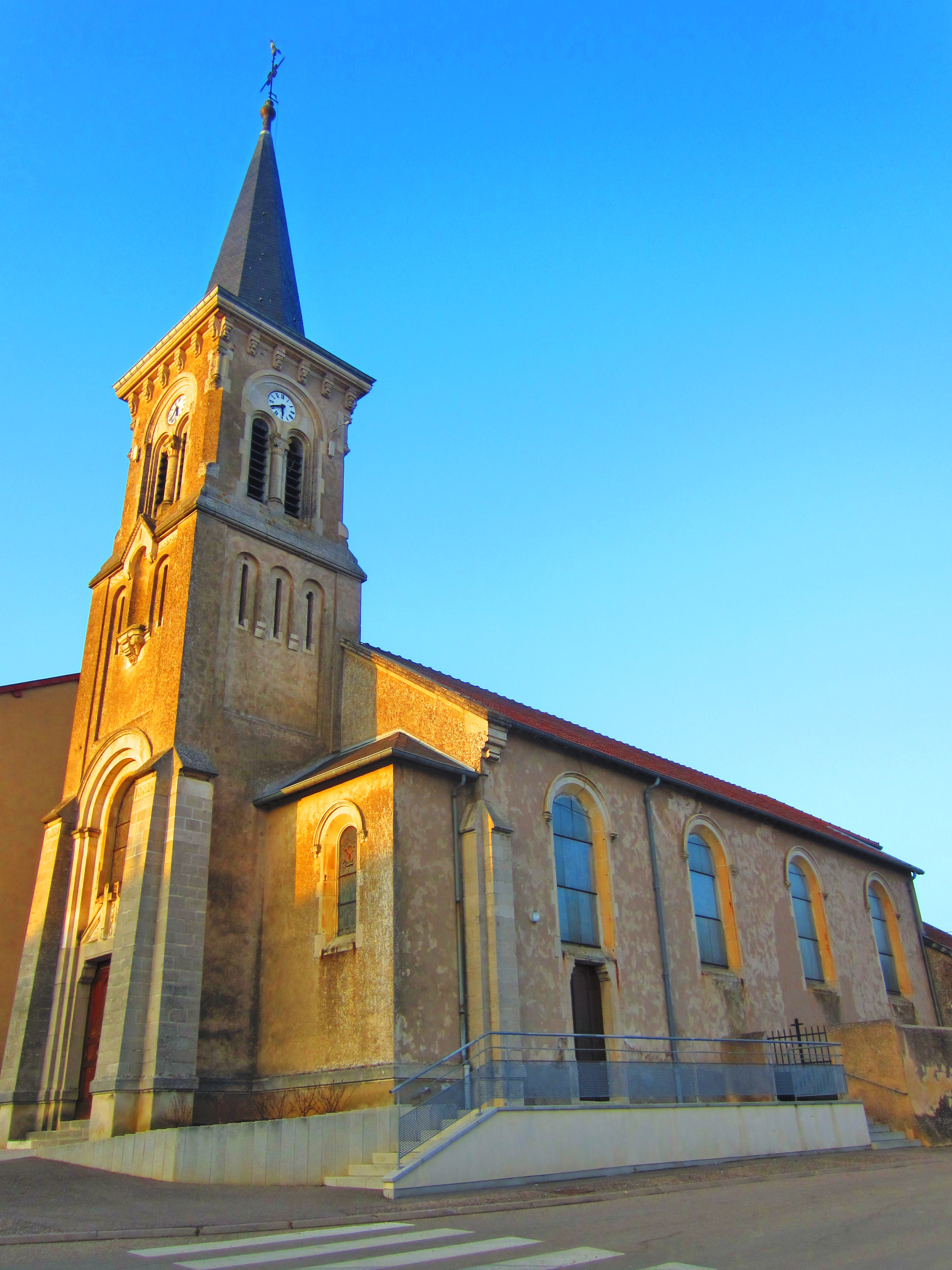 Bouxieres Froidmont church